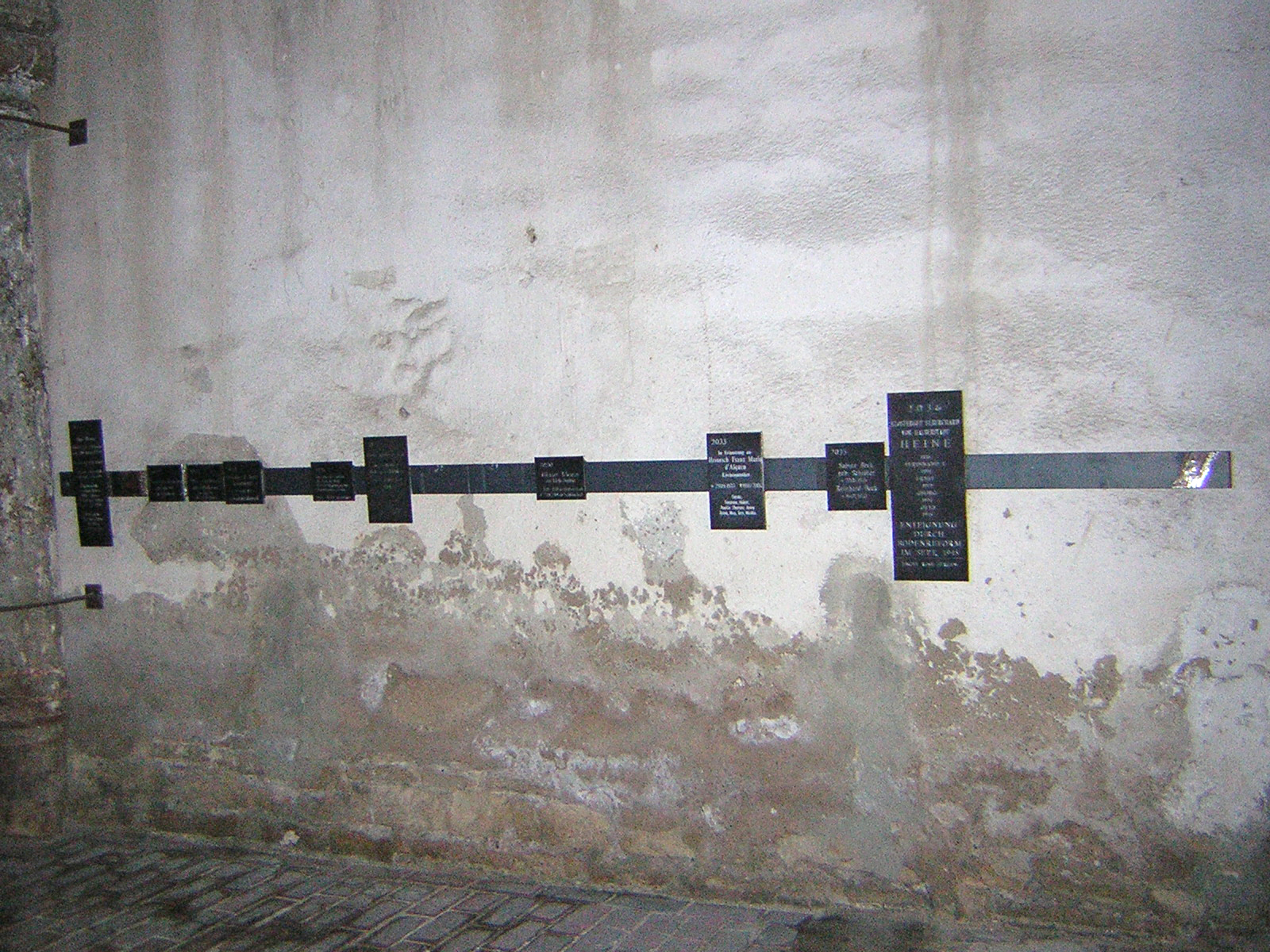 This image has been taken by Wikipedia-ce on janurary 5 of 2005 and is public domain. It shows the memorial plaques in the burchardi church of Halberstadt, Germany.